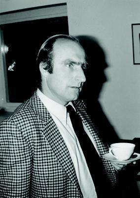 On the Photo: Hildenbrand, Werner — Location: Erlangen — Author: Jacobs, Konrad (photos provided by Jacobs, Konrad) — Source: Konrad Jacobs, Erlangen — Year: 1973